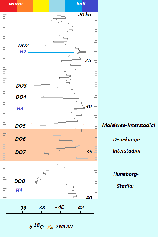 The position of the Denekamp interstadial in the time range 20 to 40 ky BP marked in red. Shown the GISP 2 curve with the δ180 values (after Wolfgang Weißmüller). Also indicated are the positions of the Dansgaard-Oeschger events DO2 till DO8 and the Heinrich events H2 till H4.